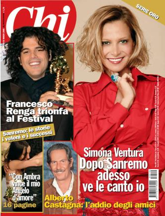 Cover of Chi magazine, March 16, 2005. Arnoldo Mondadori Editore, Mondadori Group.